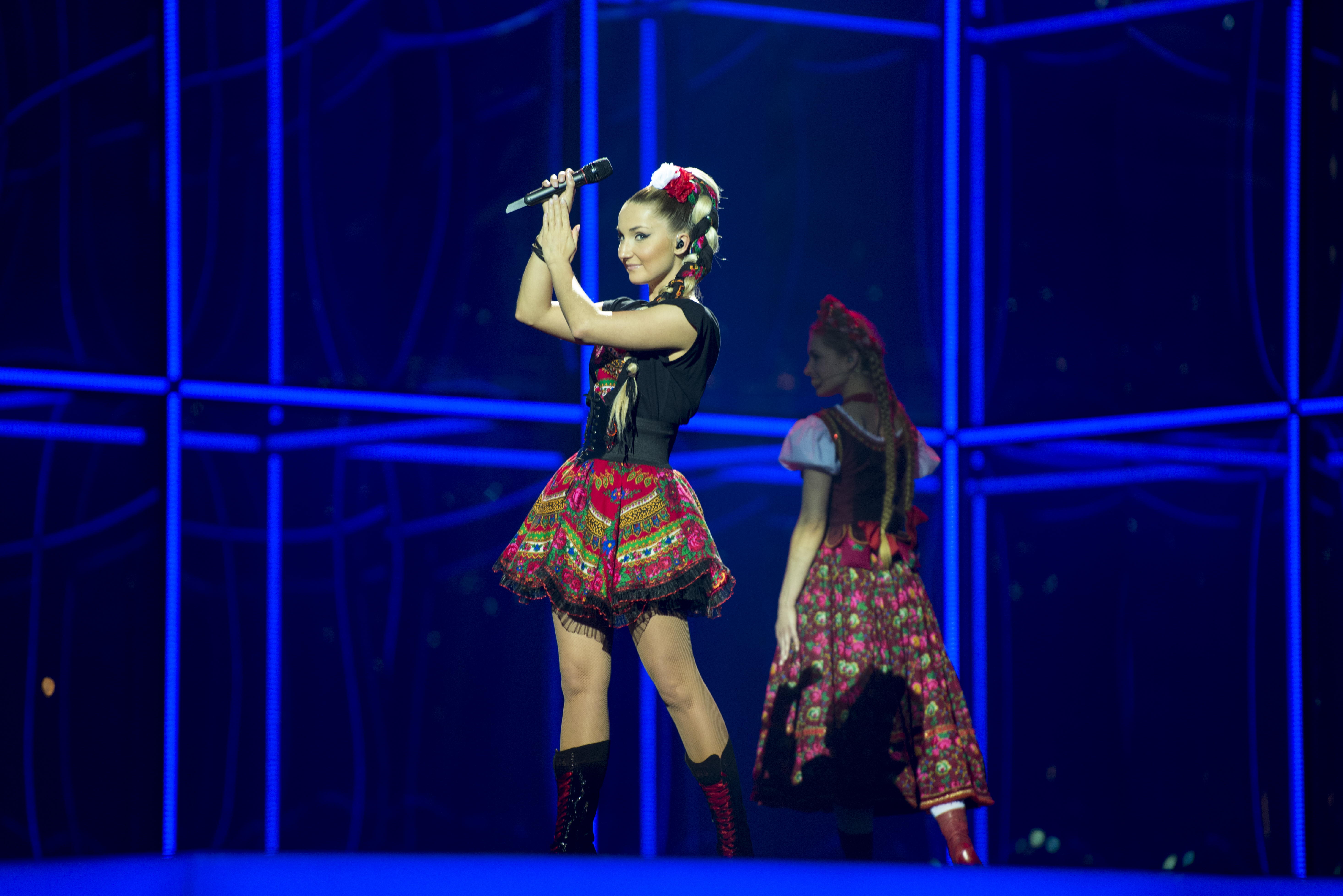 Donatan and Cleo representing Poland with the song "My Słowianie" during the first dress rehearsal of the second semi final of the Eurovision Song Contest 2014 Copenhagen. (Help translate this text)